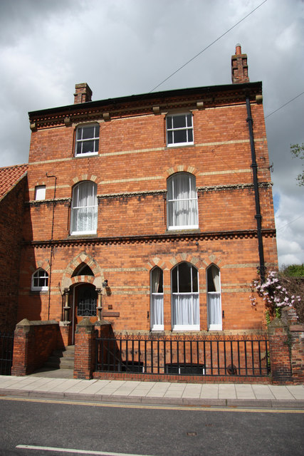 Riversmead